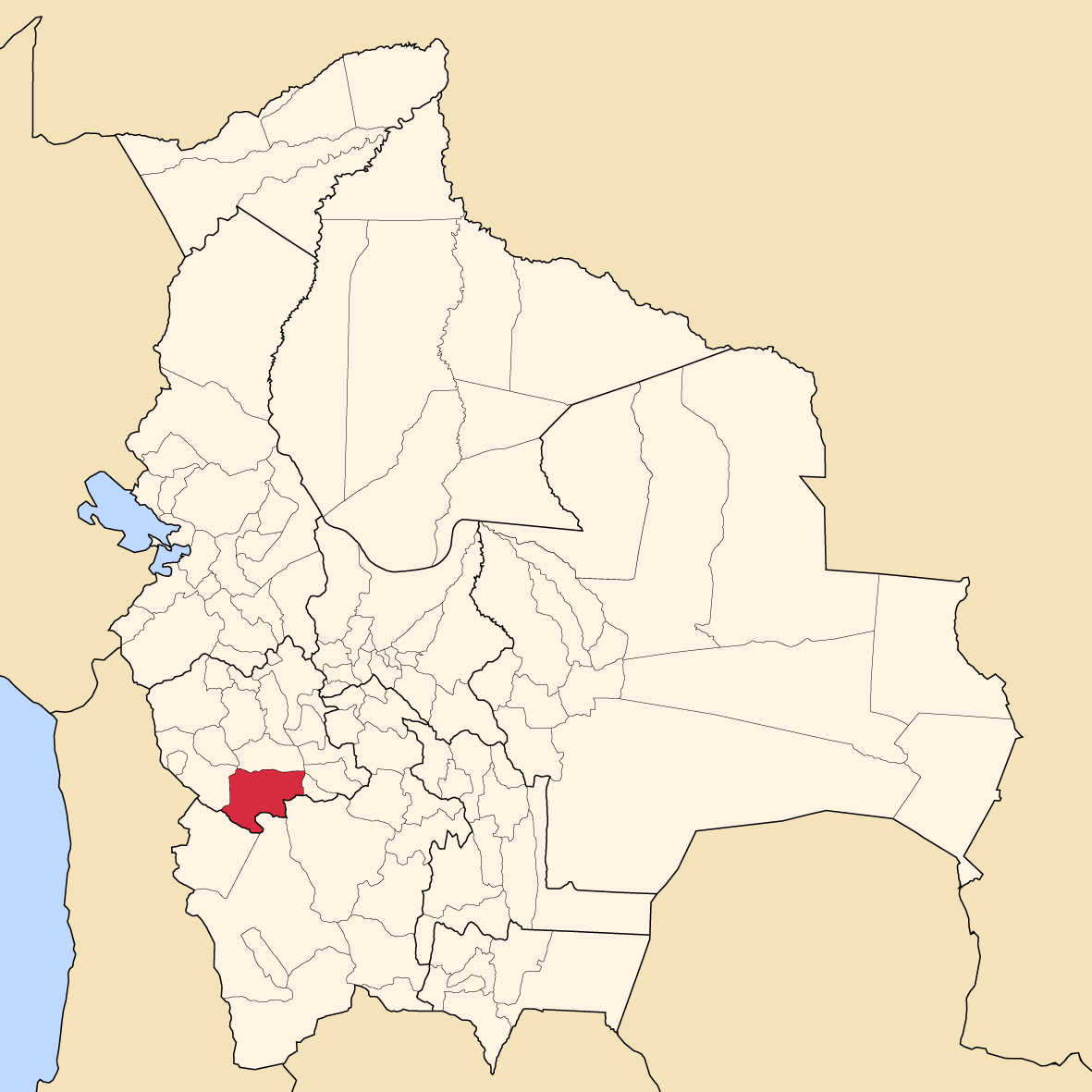 Map of Bolivia showing Ladislao Cabrera province, Oruro